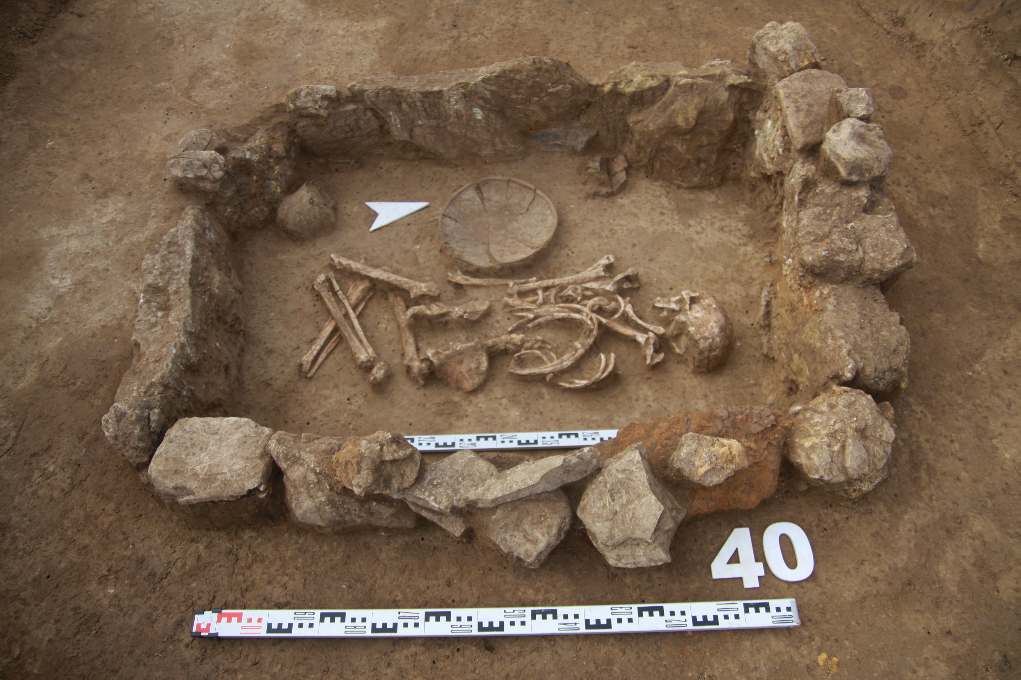 interment of Maikop culture